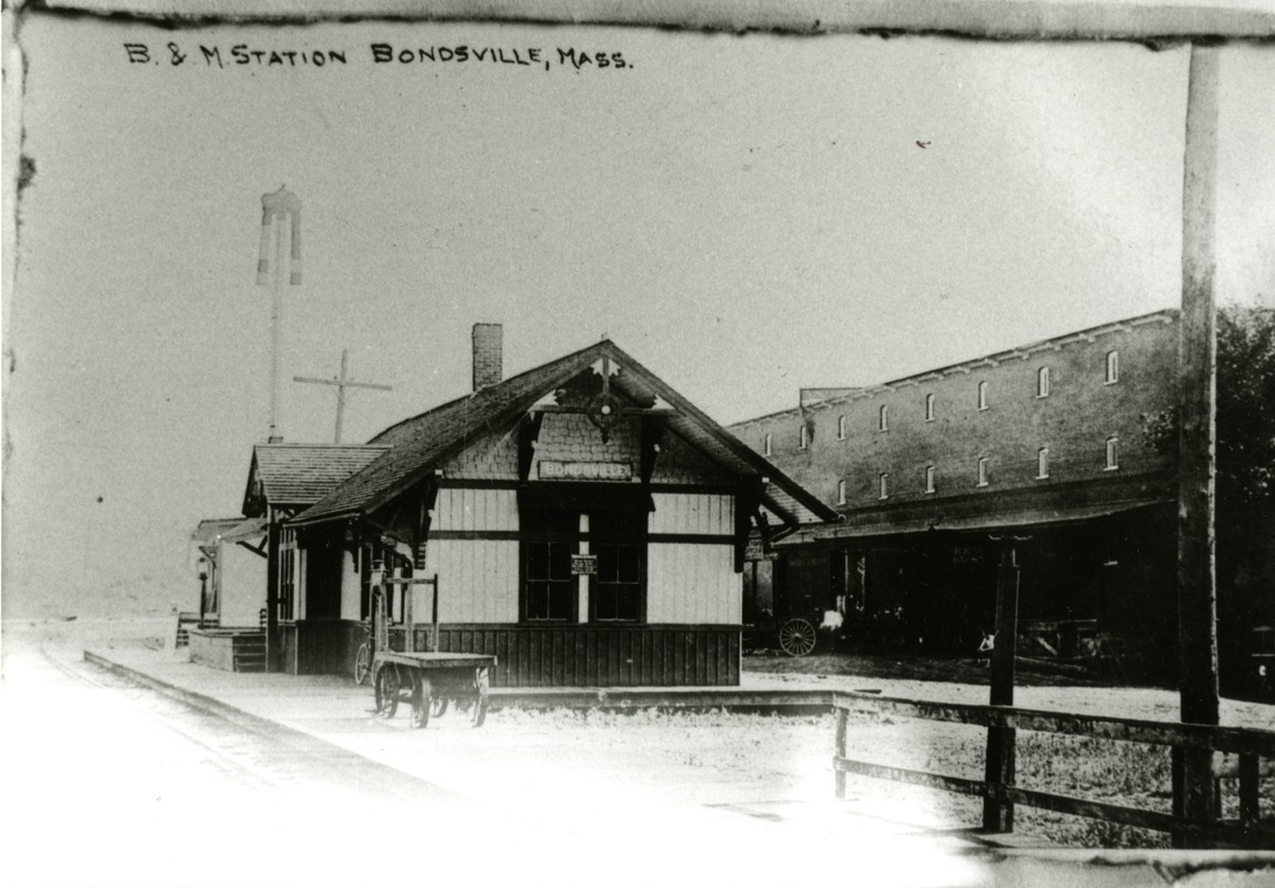 Bondsville Station on the Boston and Maine Railroad's Central Massachusetts Branch around 1923